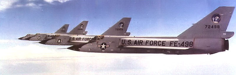 4 F-106 Delta Darts of the 95th Fighter-Interceptor Squadron in formation about 1960